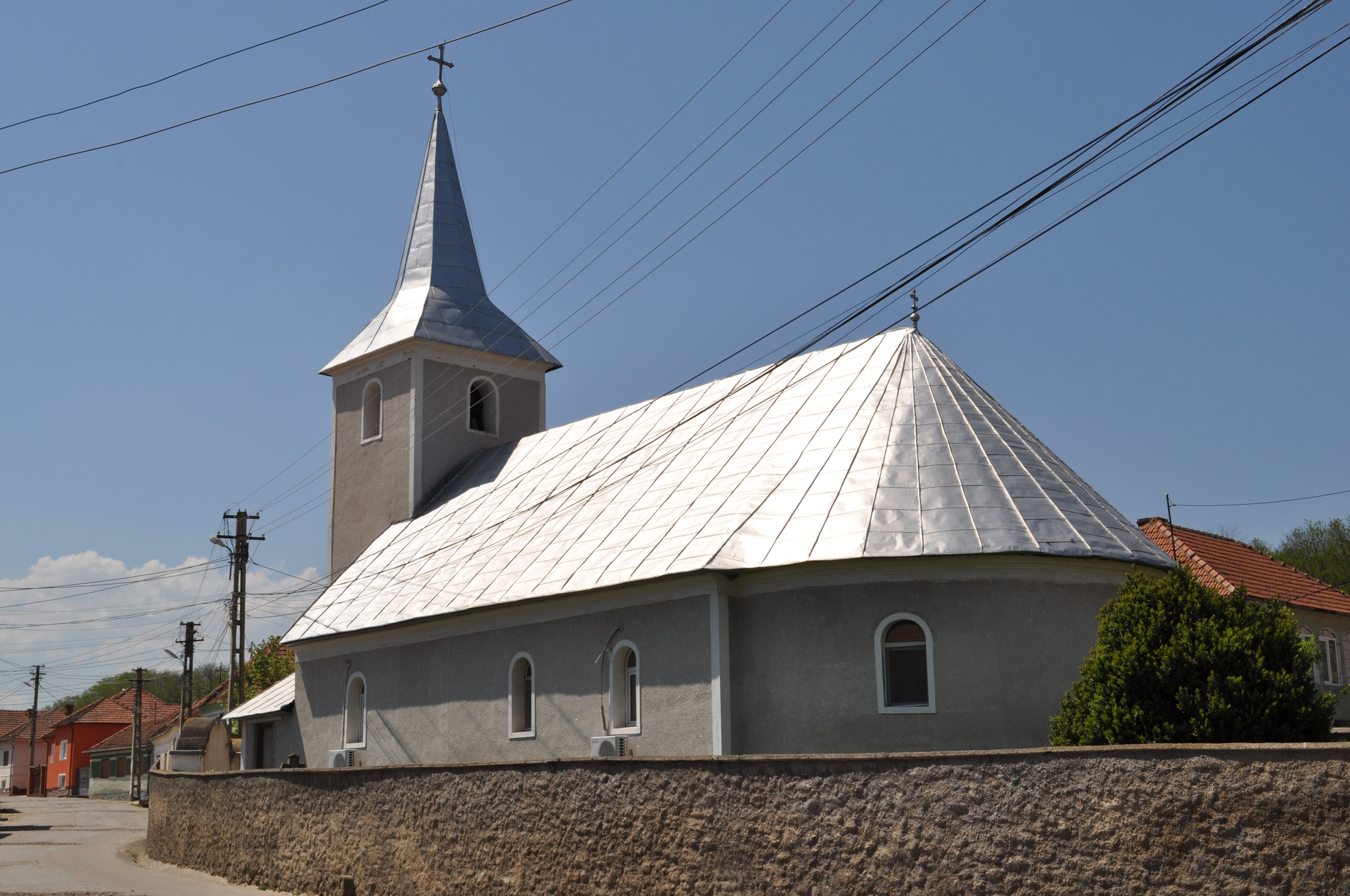 Sălașu de Jos, Hunedoara county, Romania